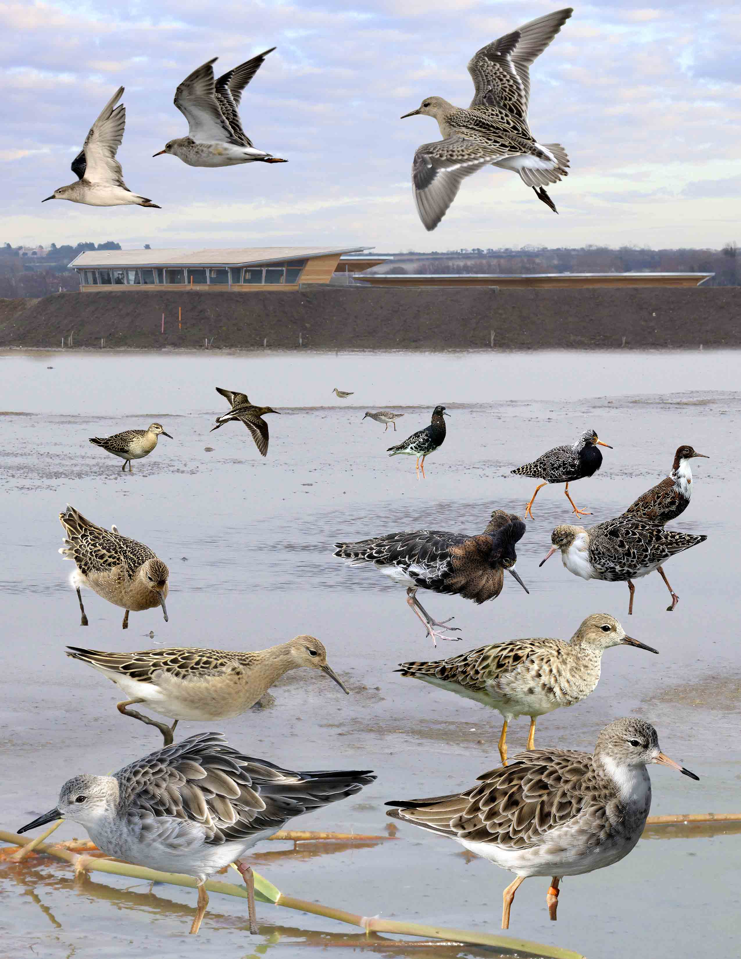 Ruff from the Crossley ID Guide Britain and Ireland